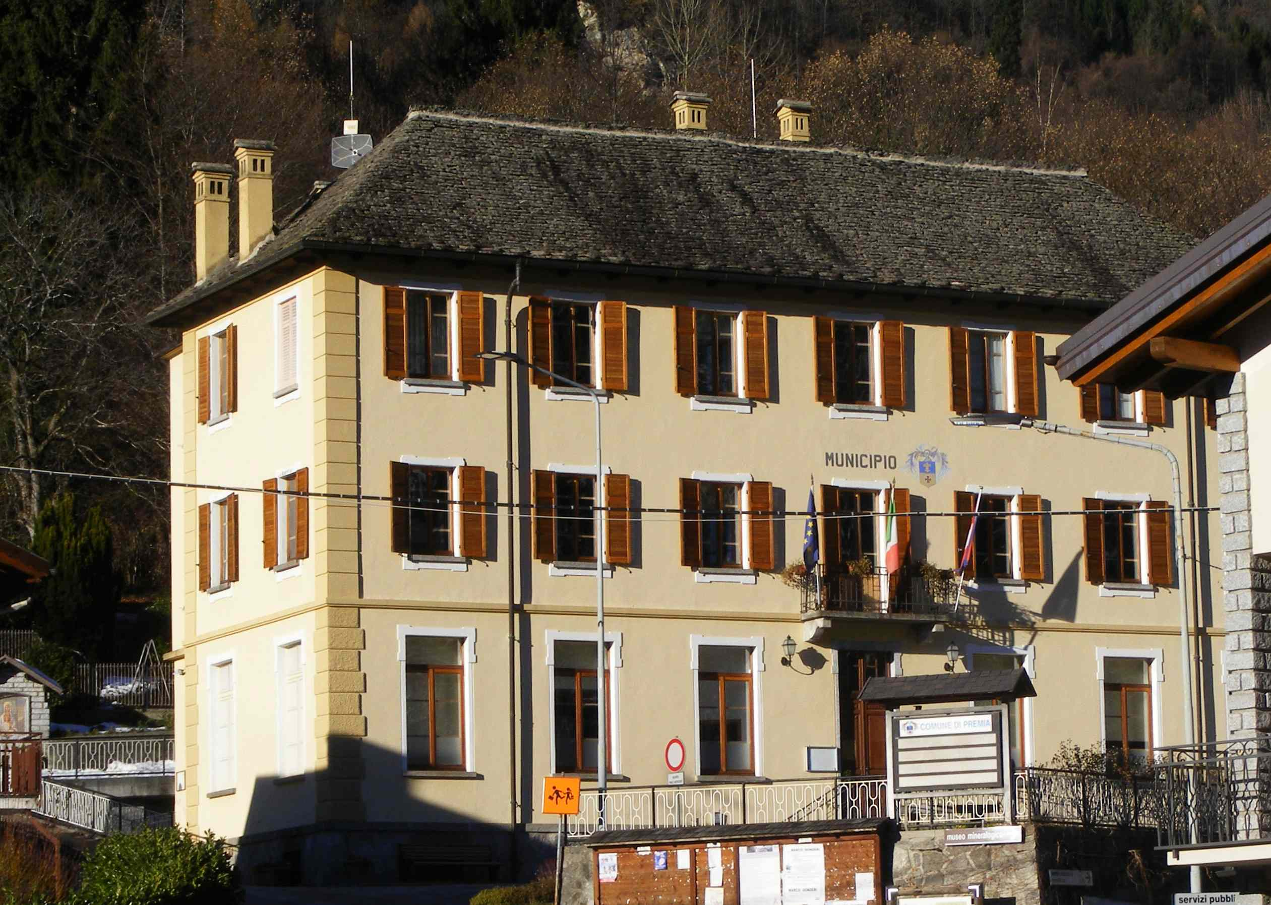 Premia (VB, Italy): town hall